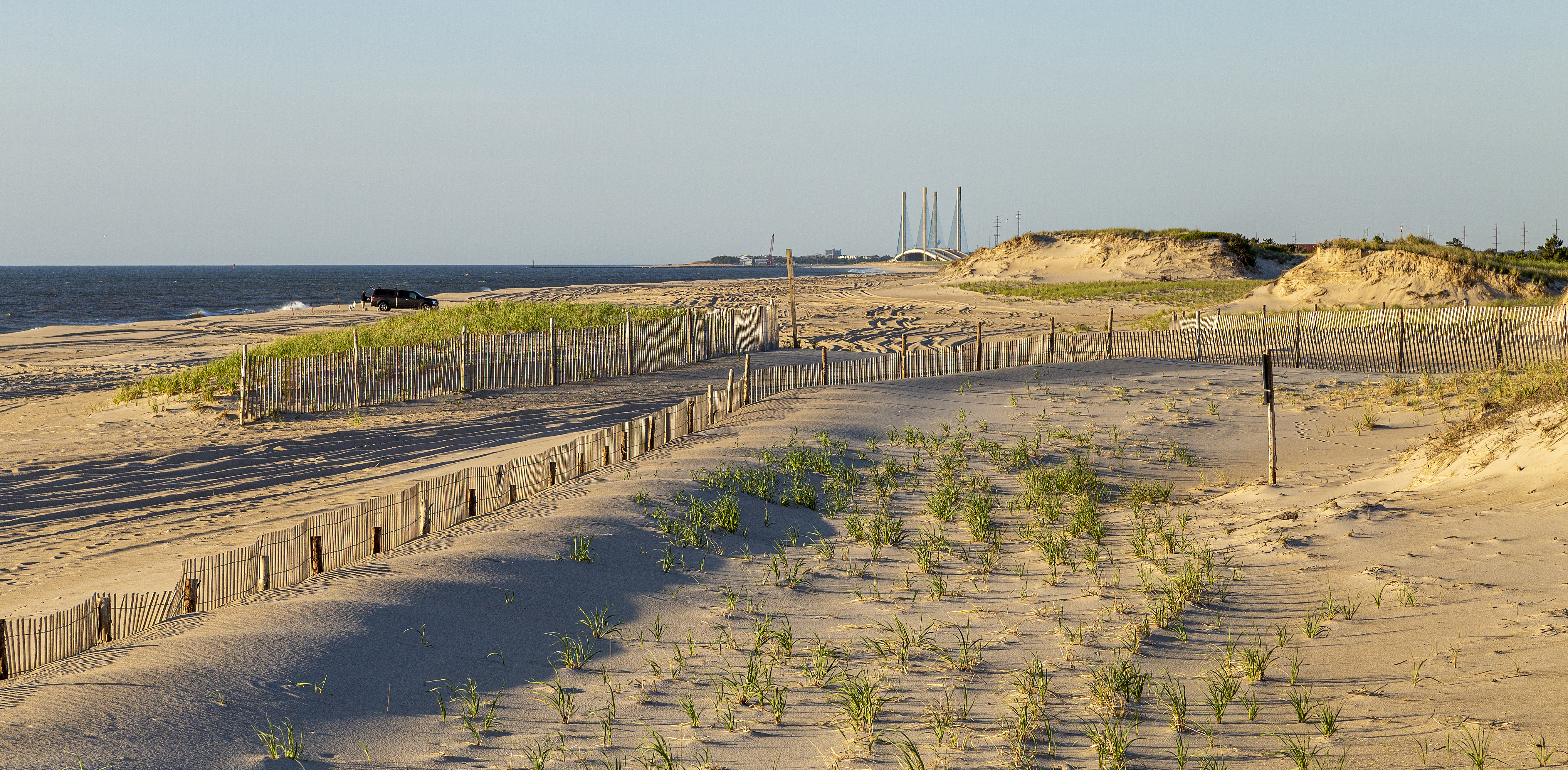 Delaware Seashore State Park, looking south towards Indian River Inlet, Delaware, USA, in the early morning